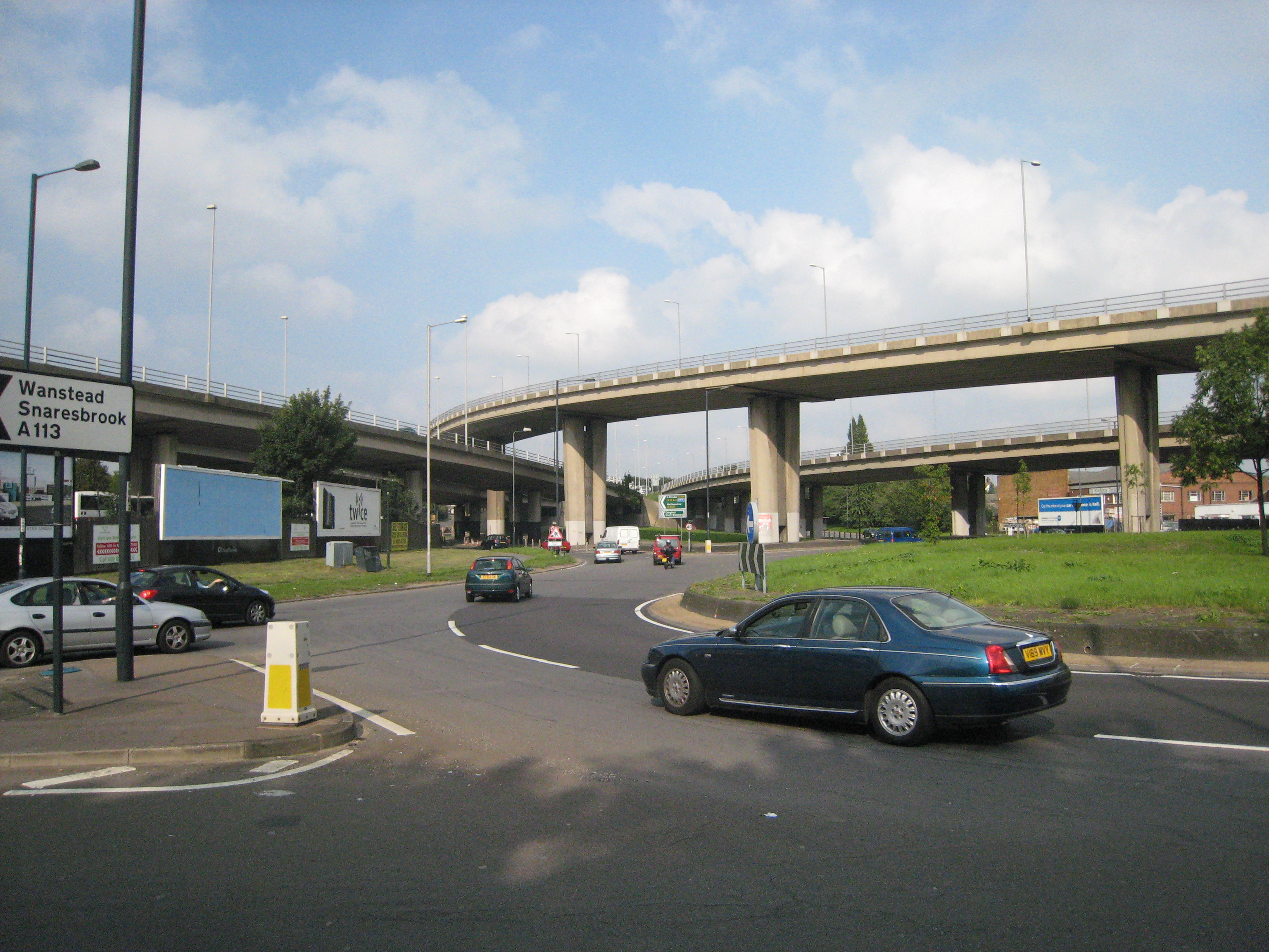 Charlie Brown Roundabout, London E18 - 18-9-2008